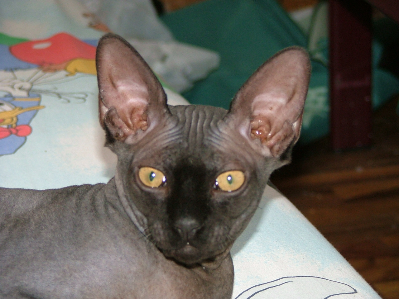 Sphynx cat (Gato esfinge)